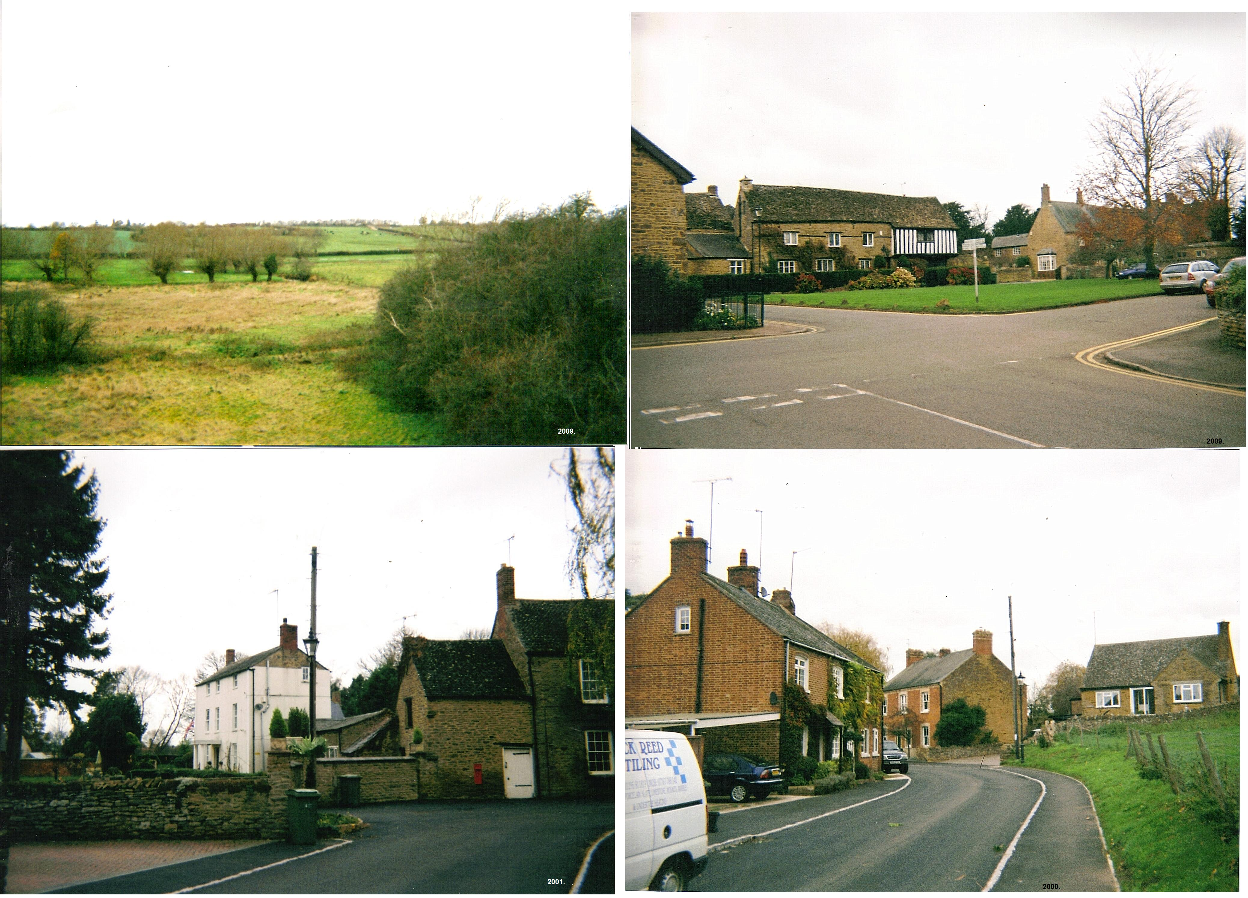 I took these pictures of King' Sutton my self and release them for use on the Wikipeadia. Each picture is date stamped.